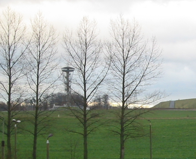 Gniewino tower, a lookout tower over the dam.